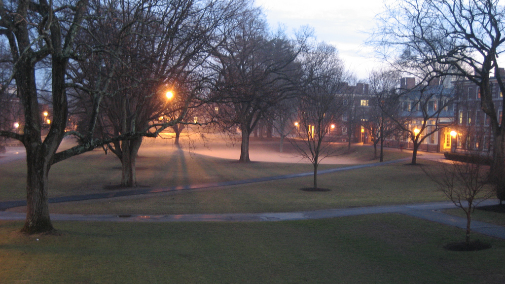 Wheaton College in Norton, MA - evening light on the central courtyard. Dining hall Everett Hall to the right.